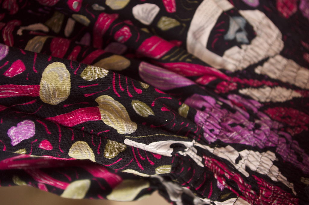 detail of a shirred skirt